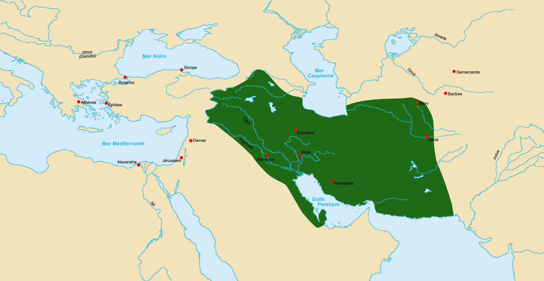 Map of Parthian Empire ca 60 BCE.